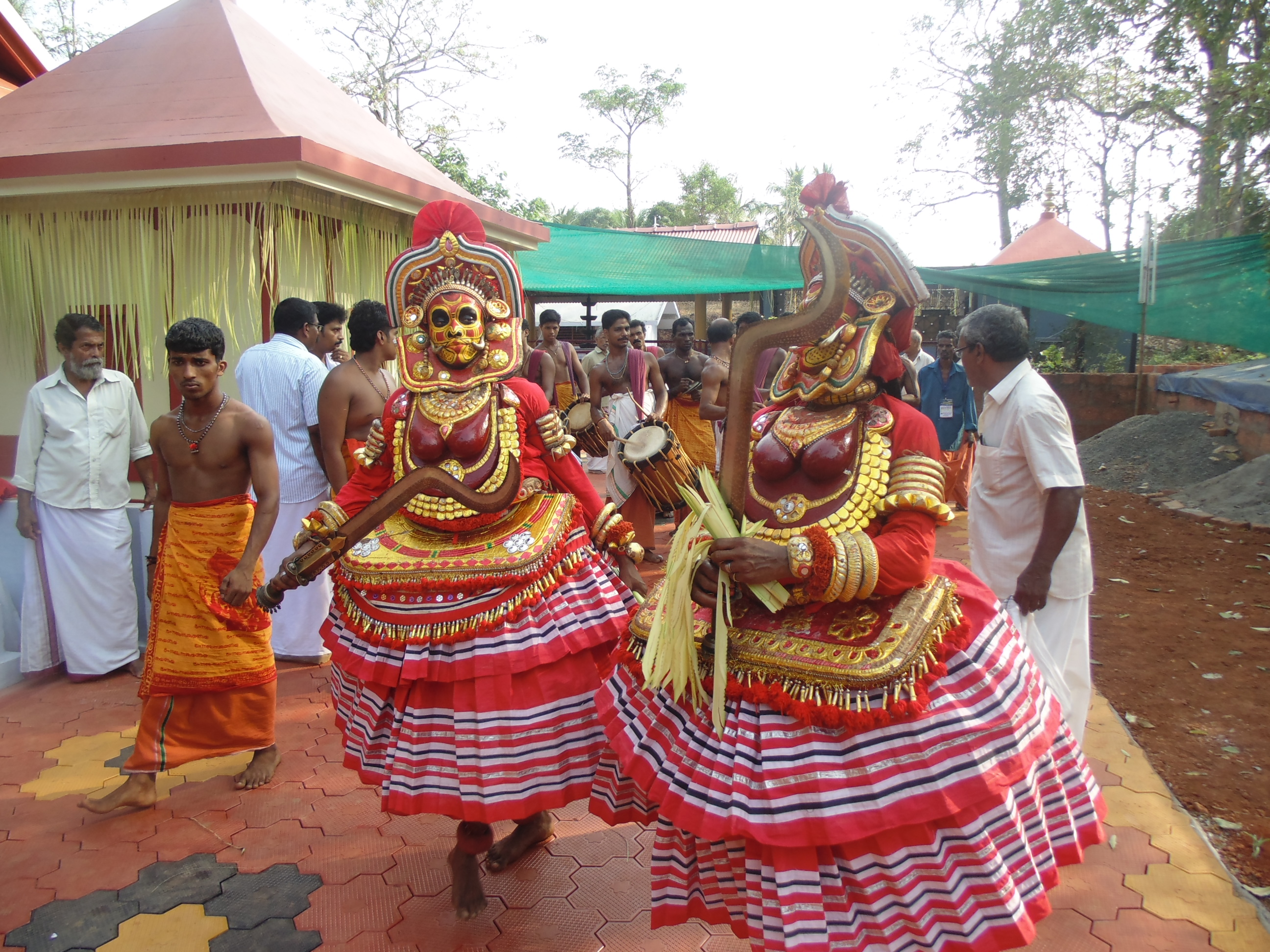 Thirayattam- Mother of Ethnic arts In Kerala